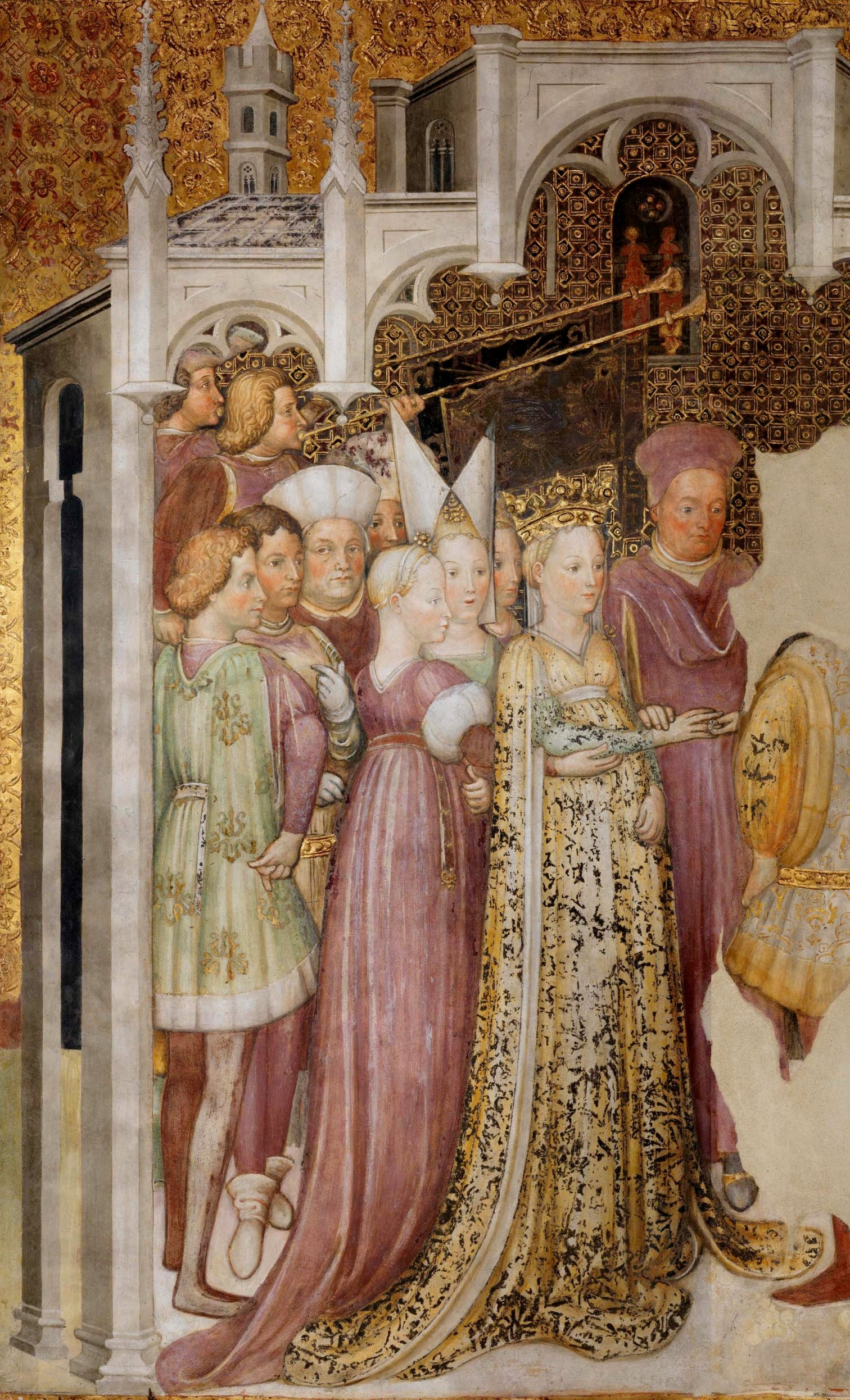 Theodelinda, queen of the Lombards, marries Agilulf, duke of Turin (detail).